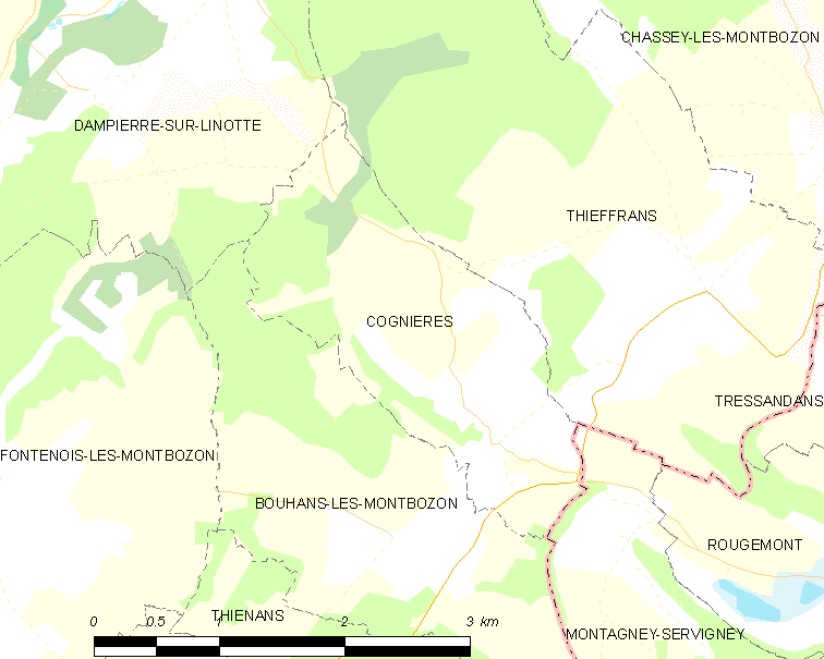 Map of French municipality